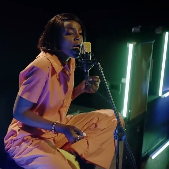 Seyi Shay NdaniTV One Love acoustic session in October 2018